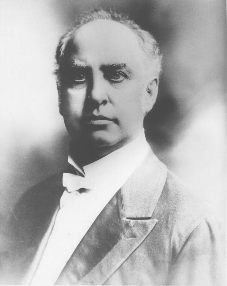 American railroad entrepreneur Jere Baxter (1852–1904)